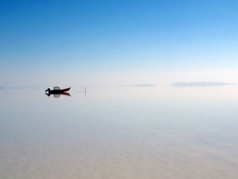 This picture of Urmia Lake was taken on October 14, 2012. Based on local residents, this location used to have a 4 meter depth some years ago.